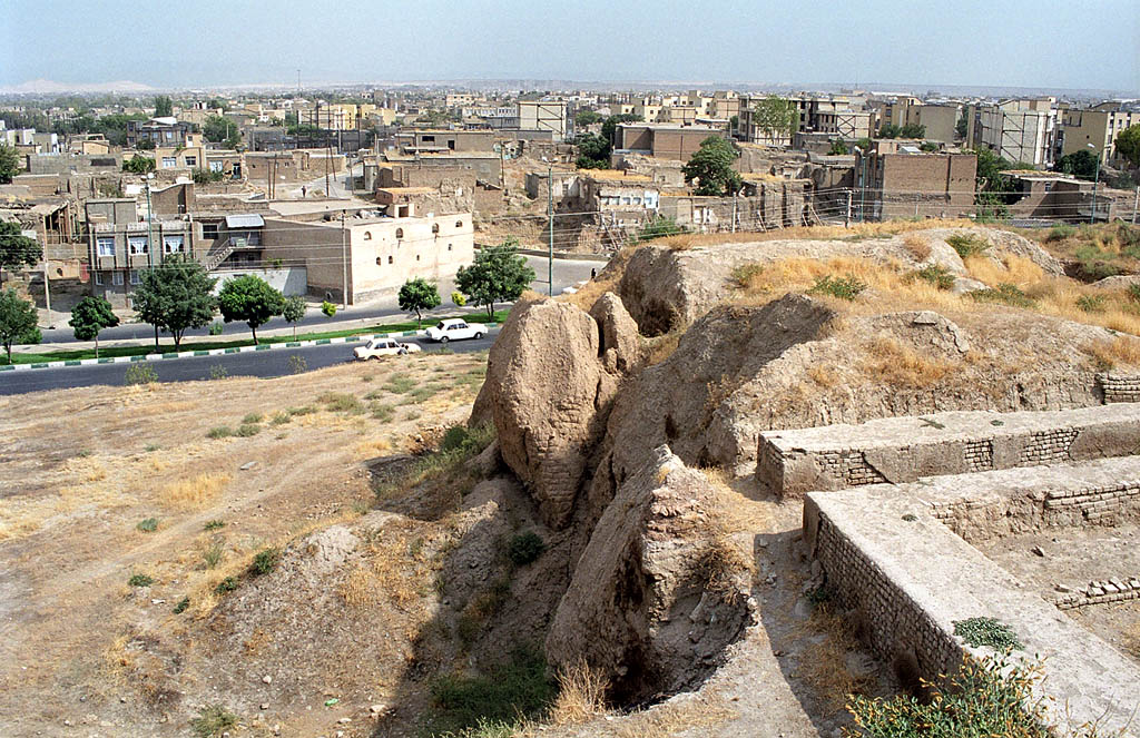 The brick walls of ancient Ecbatane, Hamadan, Iran.